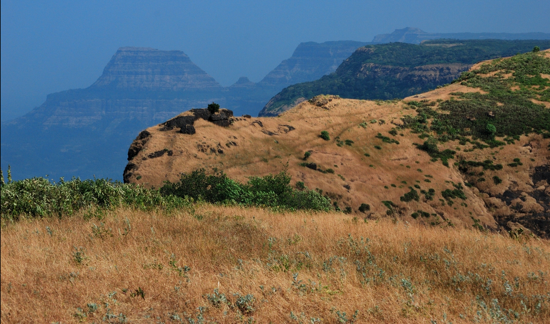 Landscape near the rim of the Western Ghats near the pilgrim place of Bhimashankar in the state of Maharashtra in the west of India.